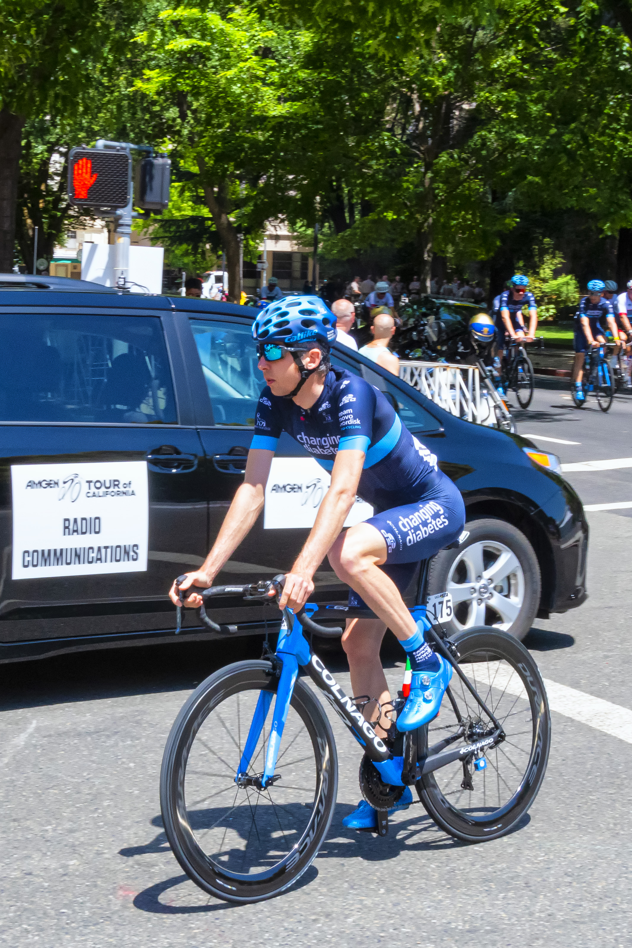 Amgen Tour of California 2019 Stage 1 Sacramento- Sacramento Road Race Sunday May 12 UCI World Tour